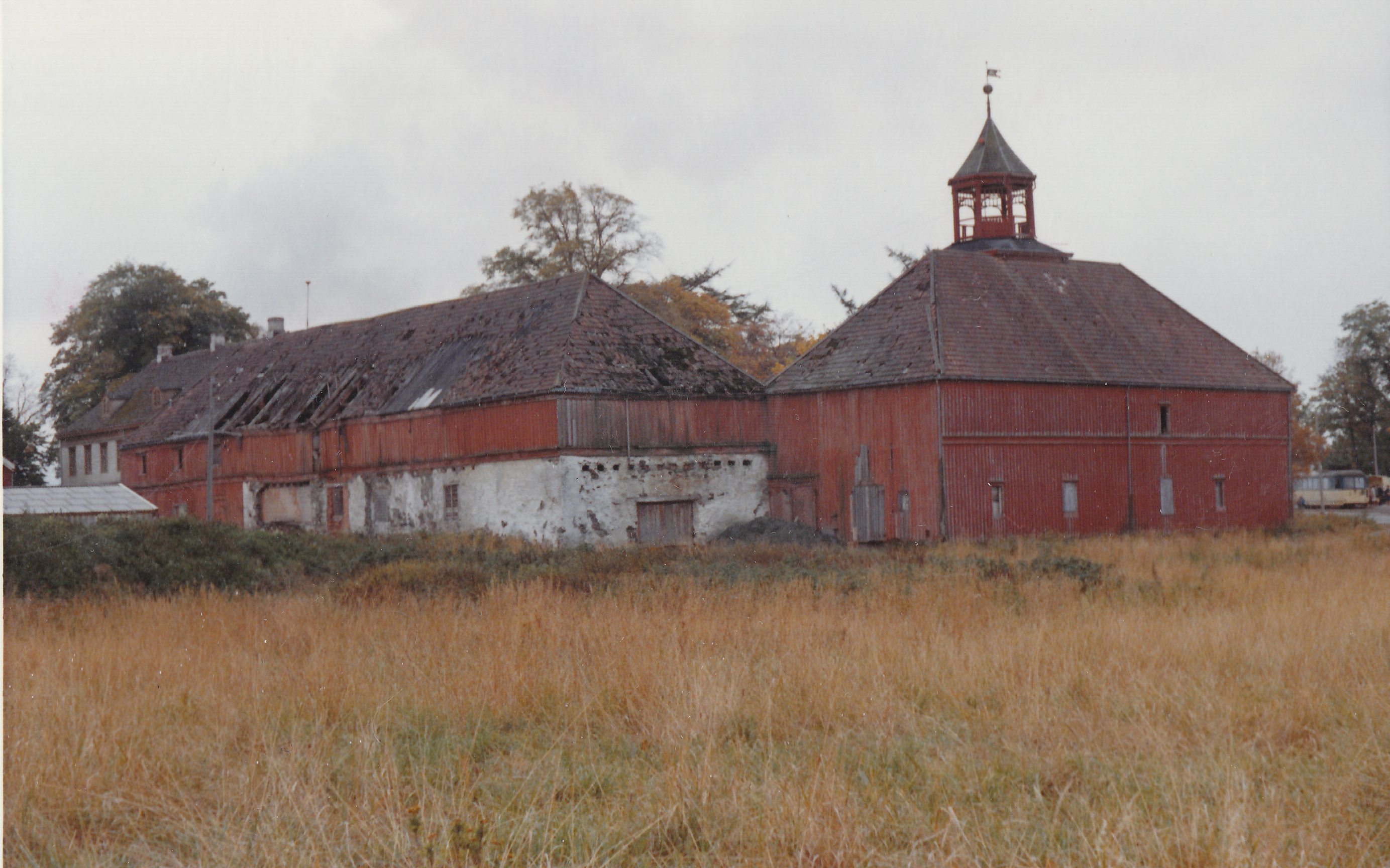 Format: Fotopositiv Dato / Date: 1. oktober 1965 Fotograf / Photographer: Ukjent Sted / Place: Trondheim Eier / Owner Institution: Trondheim byarkiv, The Municipal Archives of Trondheim Arkivreferanse / Archive reference: Tor.H41.B31.F2336 Merknad: Lade gård; de norske kongers eldste sete, hvorifra Trondheim ble grunnlagt.